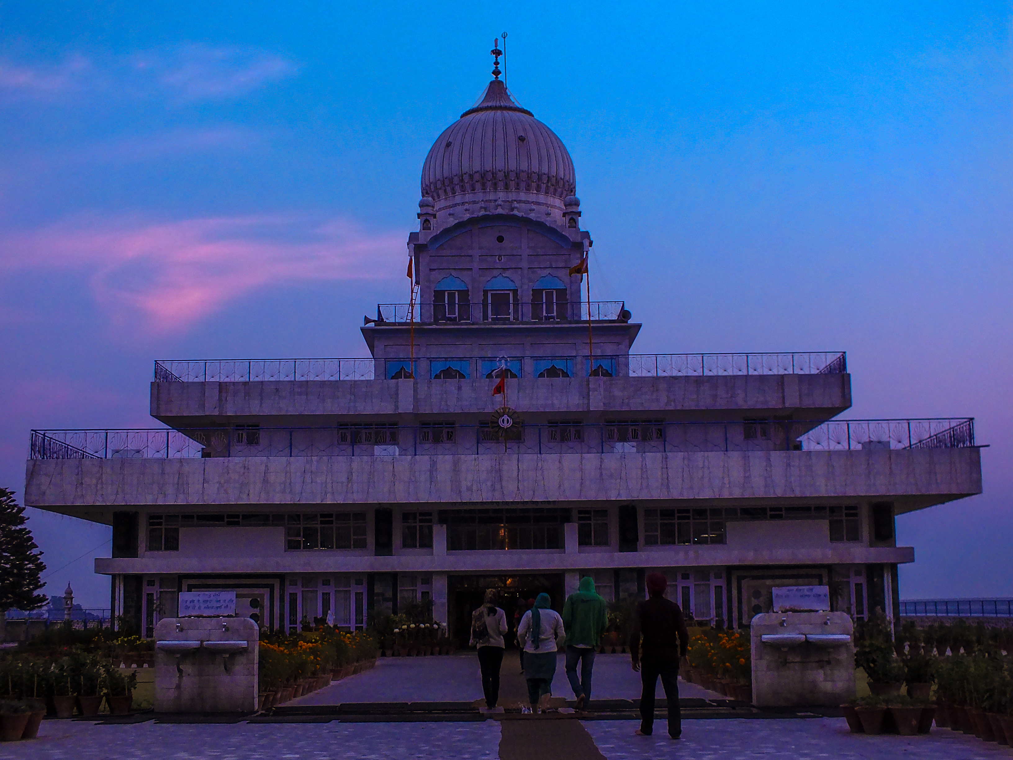 Main Gurudwara from inside